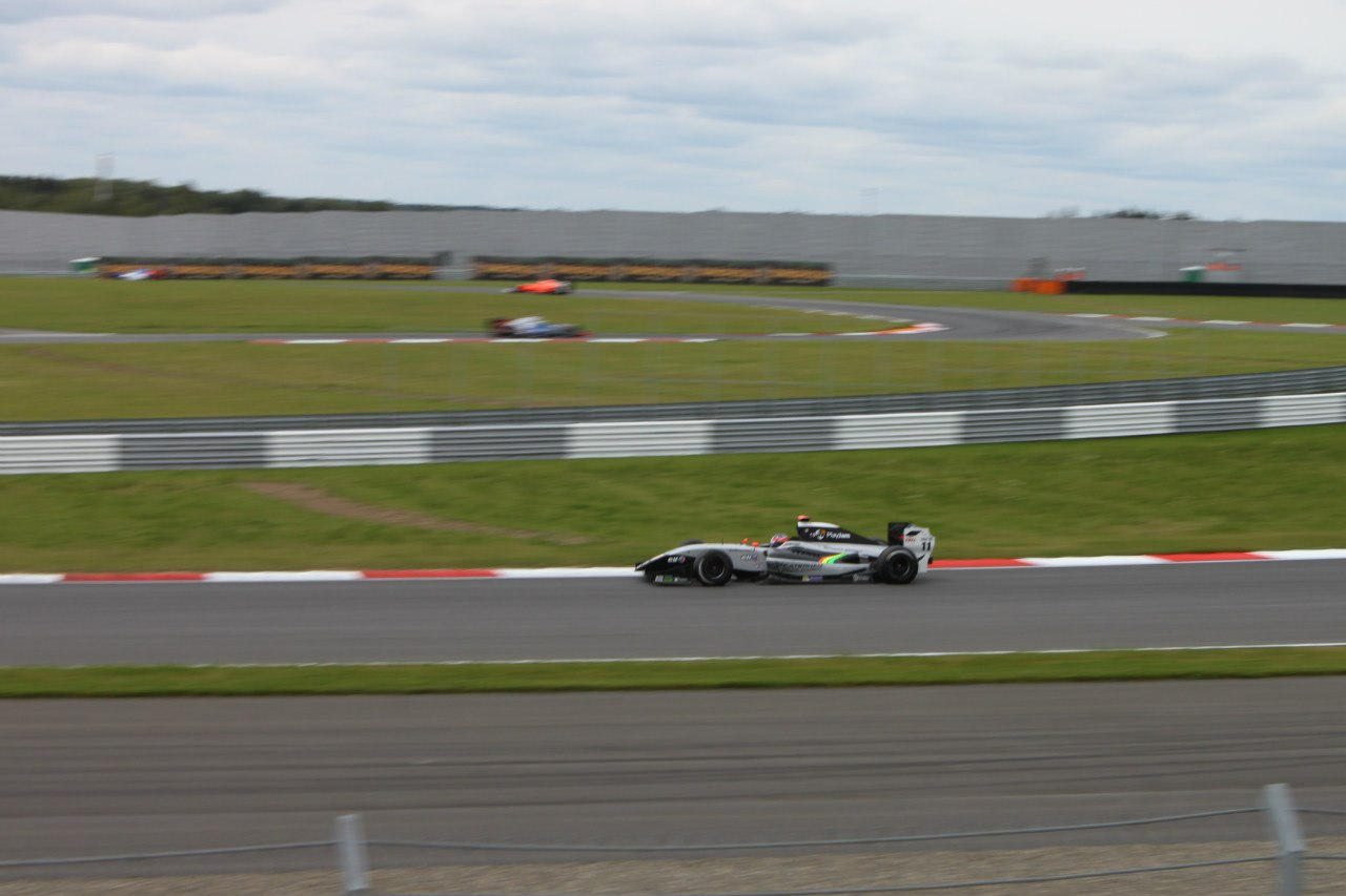 Stevens during Race 1 of the 2014 Formula Renault 3.5 Series season at Moscow Raceway.